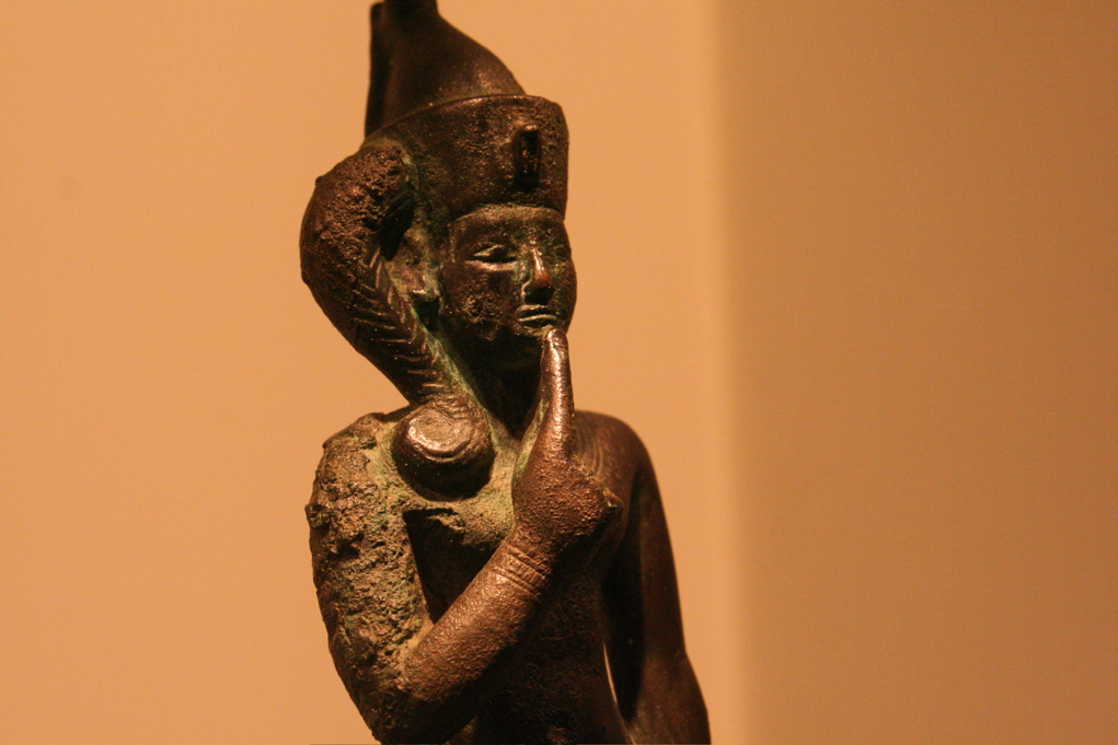 Photos from a 24 visit to London. Most of our time was in the British Museum, where we got to see the wonderful Chinese terra cotta army (no photos from that, though). Also saw a wonderfully fun play (39 Steps - no photos there either), and the £800M rennovation of St. Pancras (definitely photos).